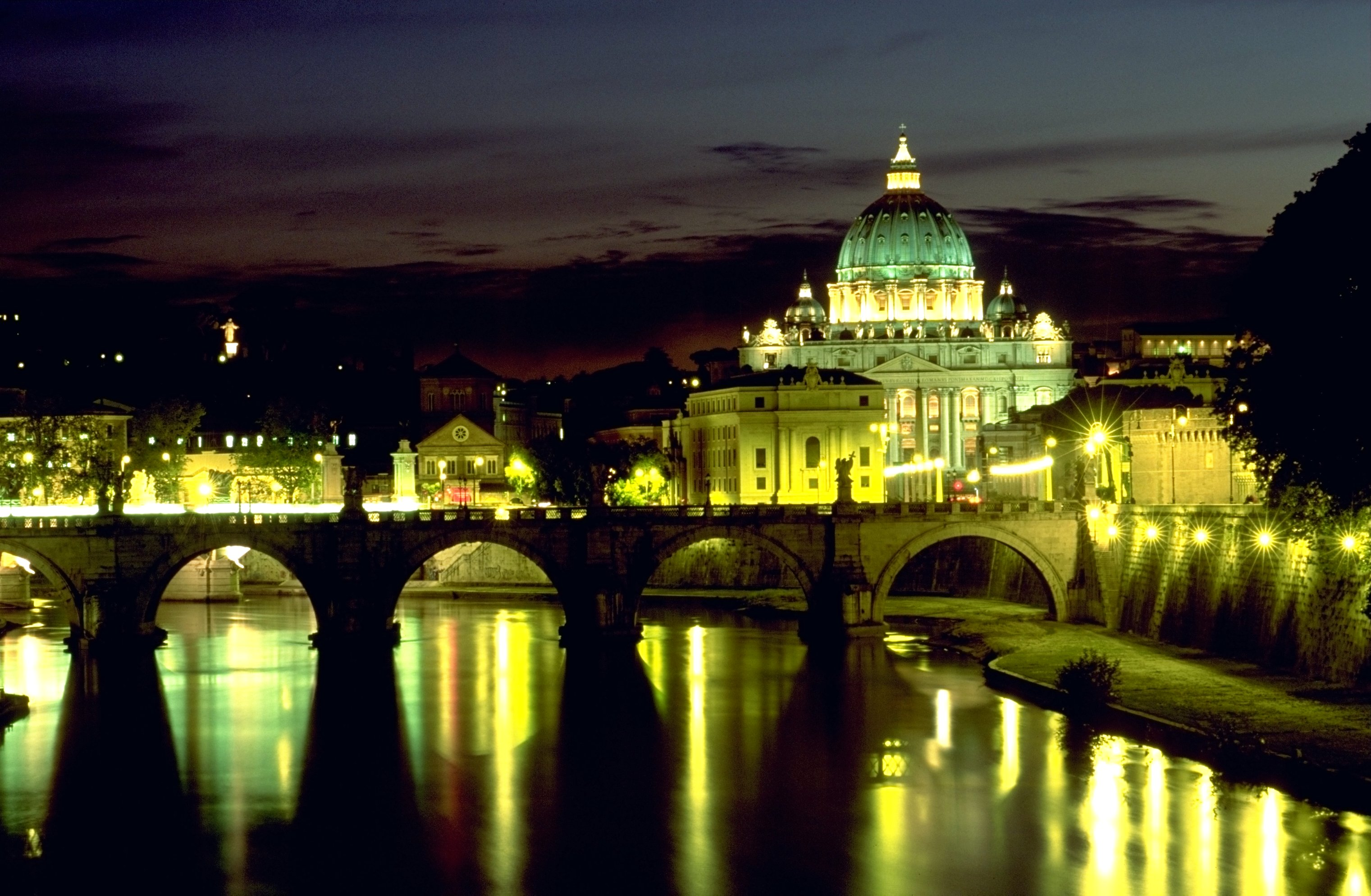 Angels Bridge and Basilica di San Pietro (view at night); Photo was taken using the following technique: Film: Fuji Velvia Lens: 1.4/50 Filter: Body: Minolta 9000 Support: Manfrotto 190B Image with Information in English Bild mit Informationen auf Deutsch